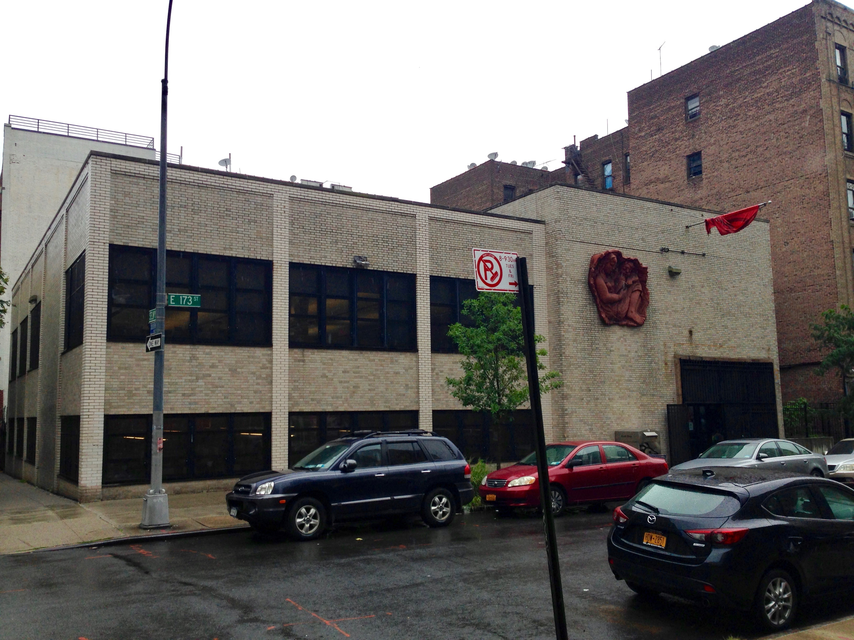 New York Public Library Grand Conourse Branch Library in the Bronx on a rainy day.